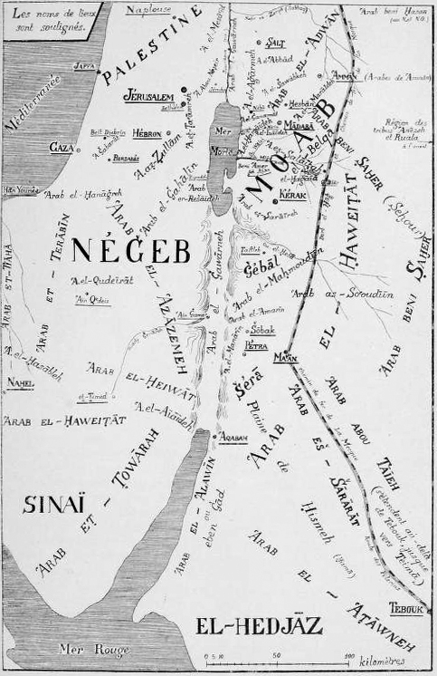 Map showing the bedouin tribes around 1908.